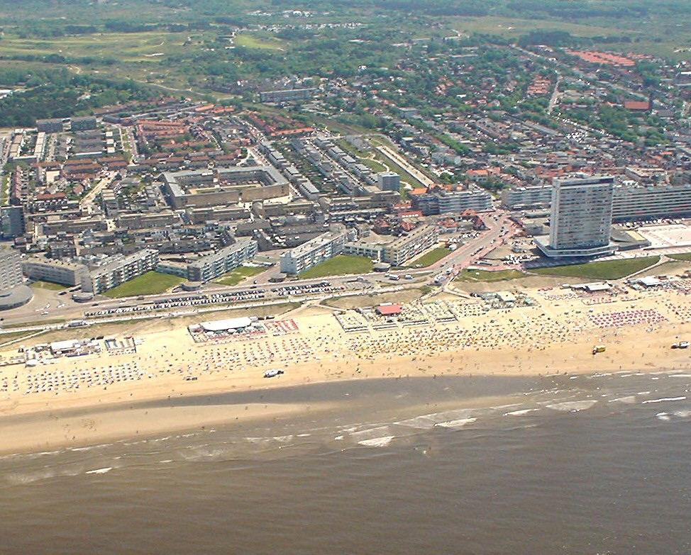 Zandvoort, North Holland, the Netherlands